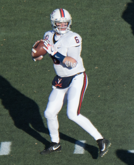 Virginia Quarterback Kurt Benkert, 6, looks for an open receiver during the 2017 Military Bowl at the Navy – Marine Corps Memorial Stadium in Annapolis, Md., Dec. 28, 2017. The Navy Midshipmen defeated the University of Virginia Cavaliers 49-7. (DoD Photo by U.S. Army Sgt. James K. McCann)